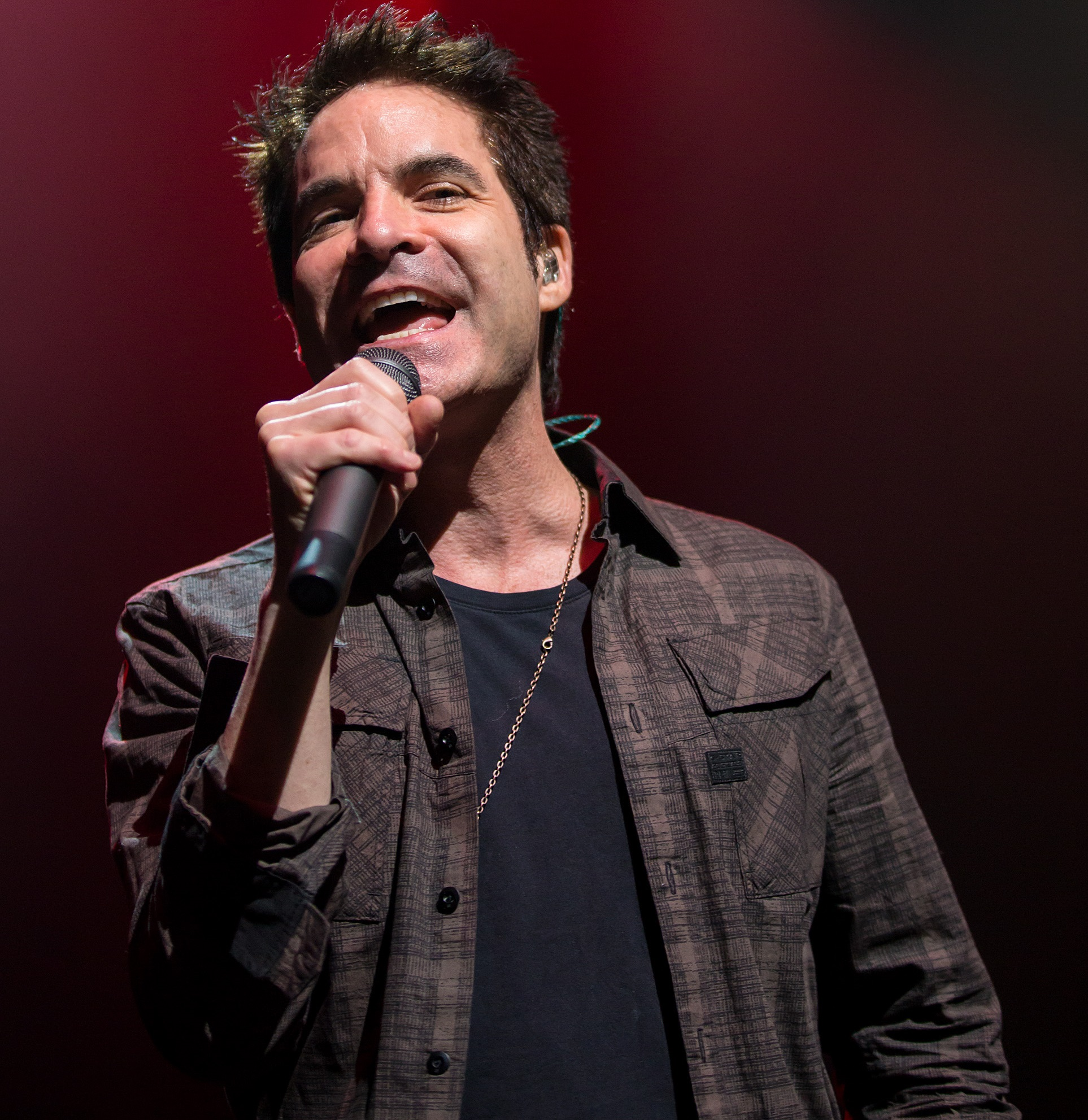 Patrick Monahan performing with Train at ACL Live in Austin, Texas in 2014